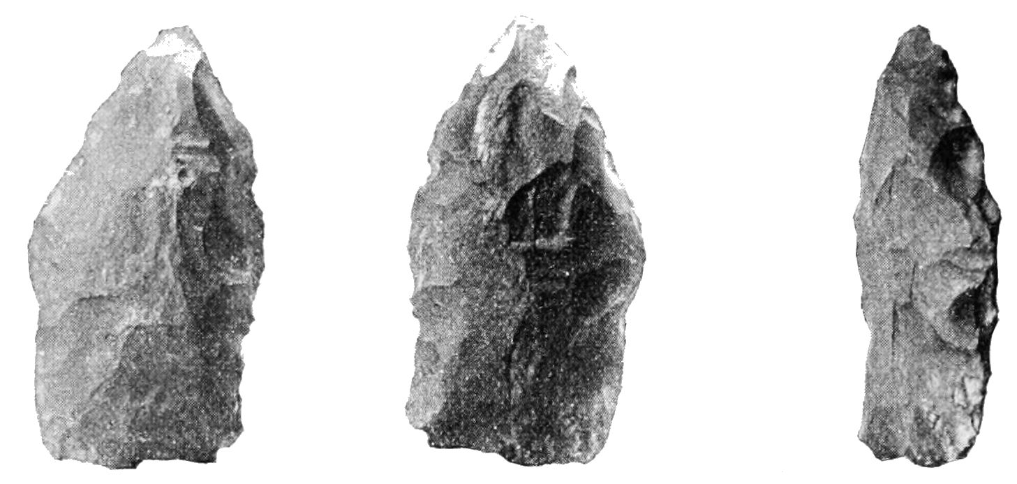 Views of sharpened stone implement